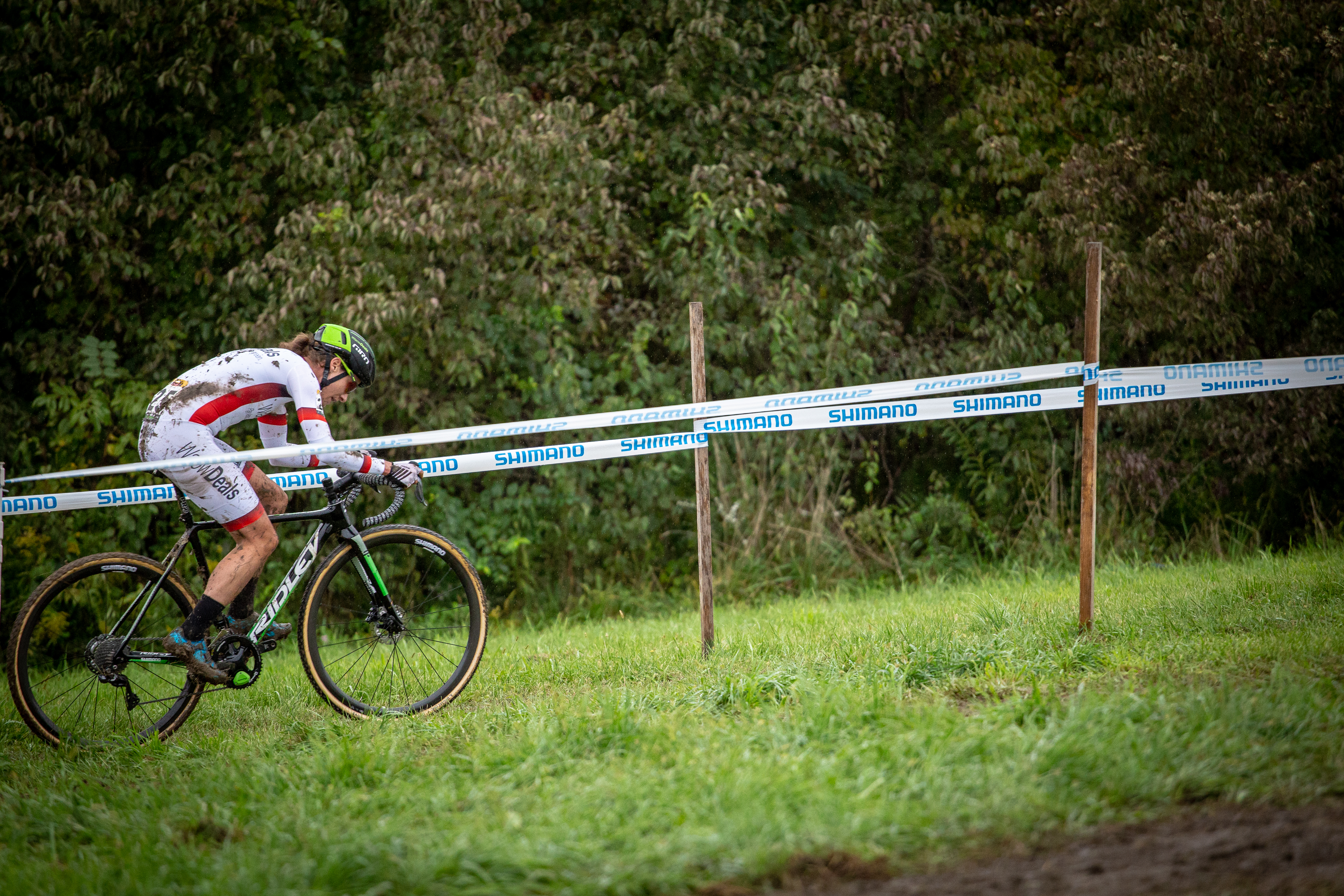 Photos from the 2018 Jingle Cross Cyclocross World Cup races in Iowa City. Toon Aerts (BEL) of Telenet-Fidea Lions won the men's race while current World Champion Wout Van Aert (BEL) was runner-up. Katie Keogh (USA) of Team Cannondale won the women's race while Evie Richards of Great Britain was runner-up.